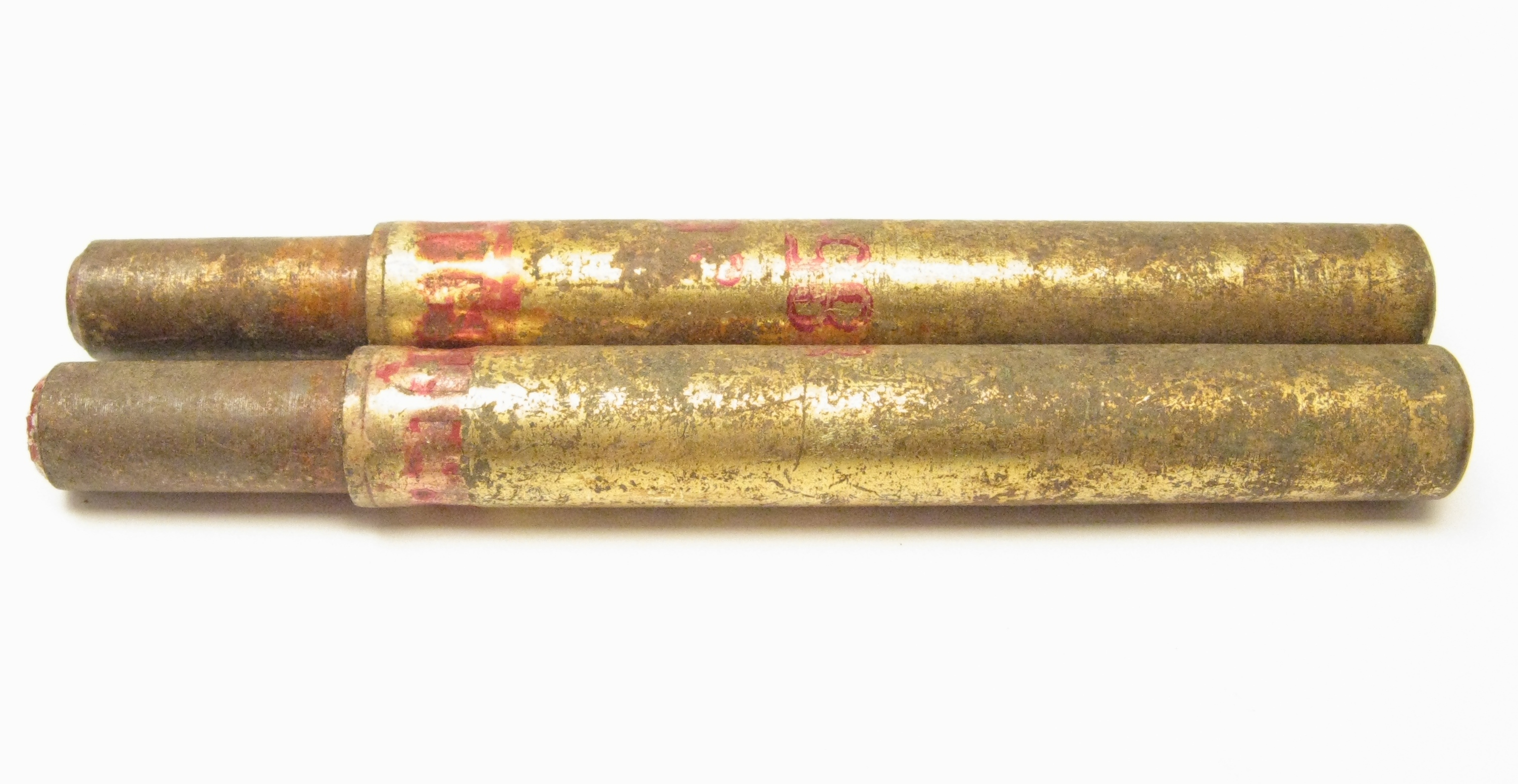 RGD-33 Grenade Fuses